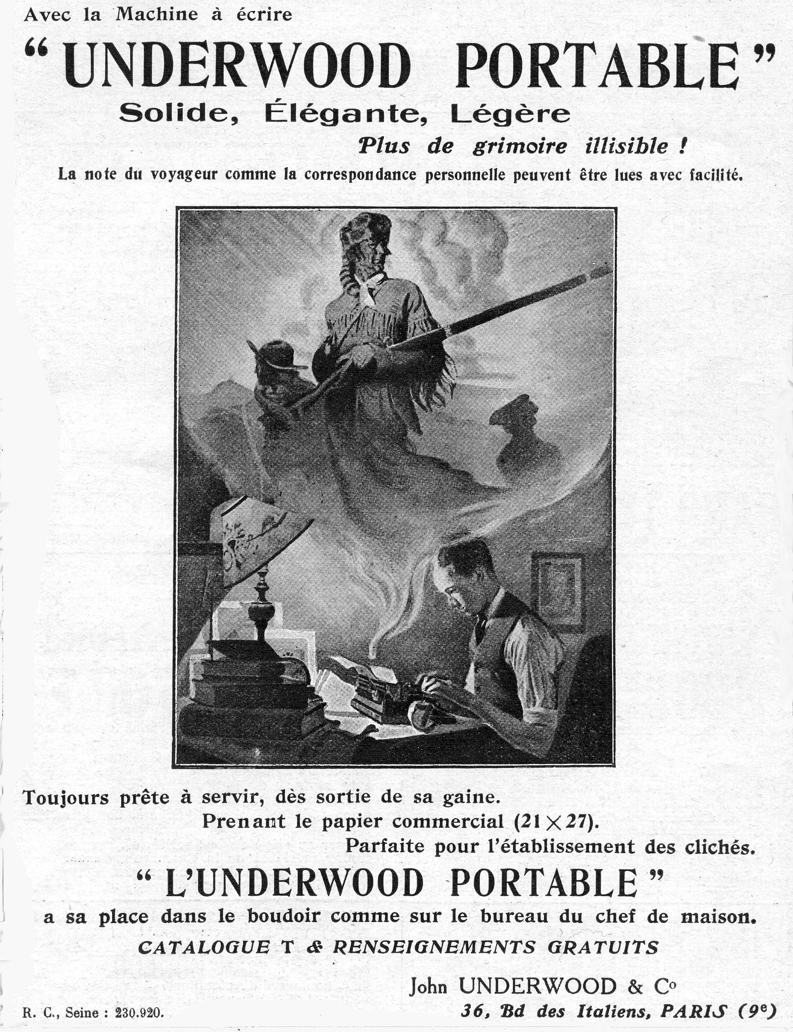 Underwood typewriter : advertisement of 1924